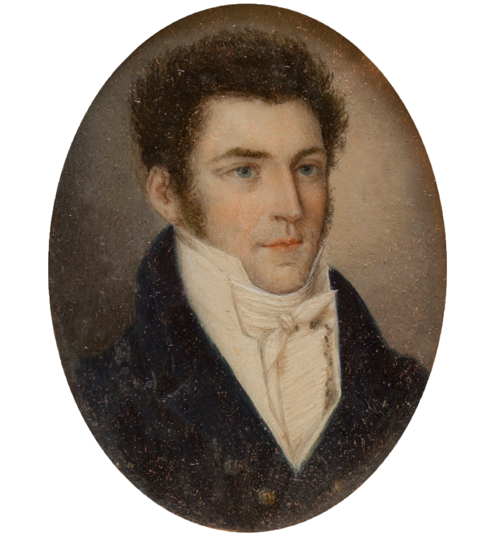 Oval Miniature of a young José Agustín de Lecubarri, Spanish diplomat, age 25.